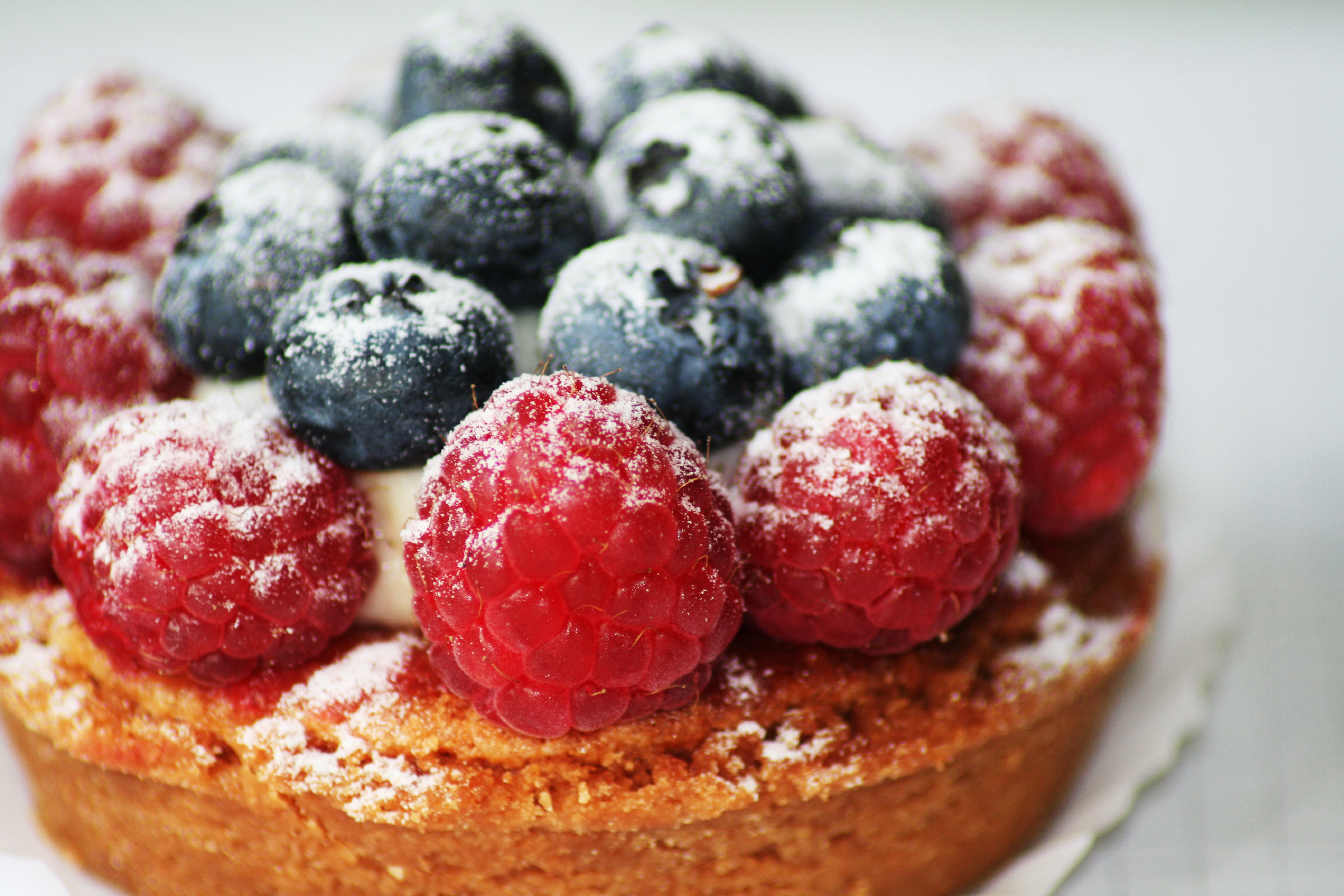 Raspberry and blueberry tart